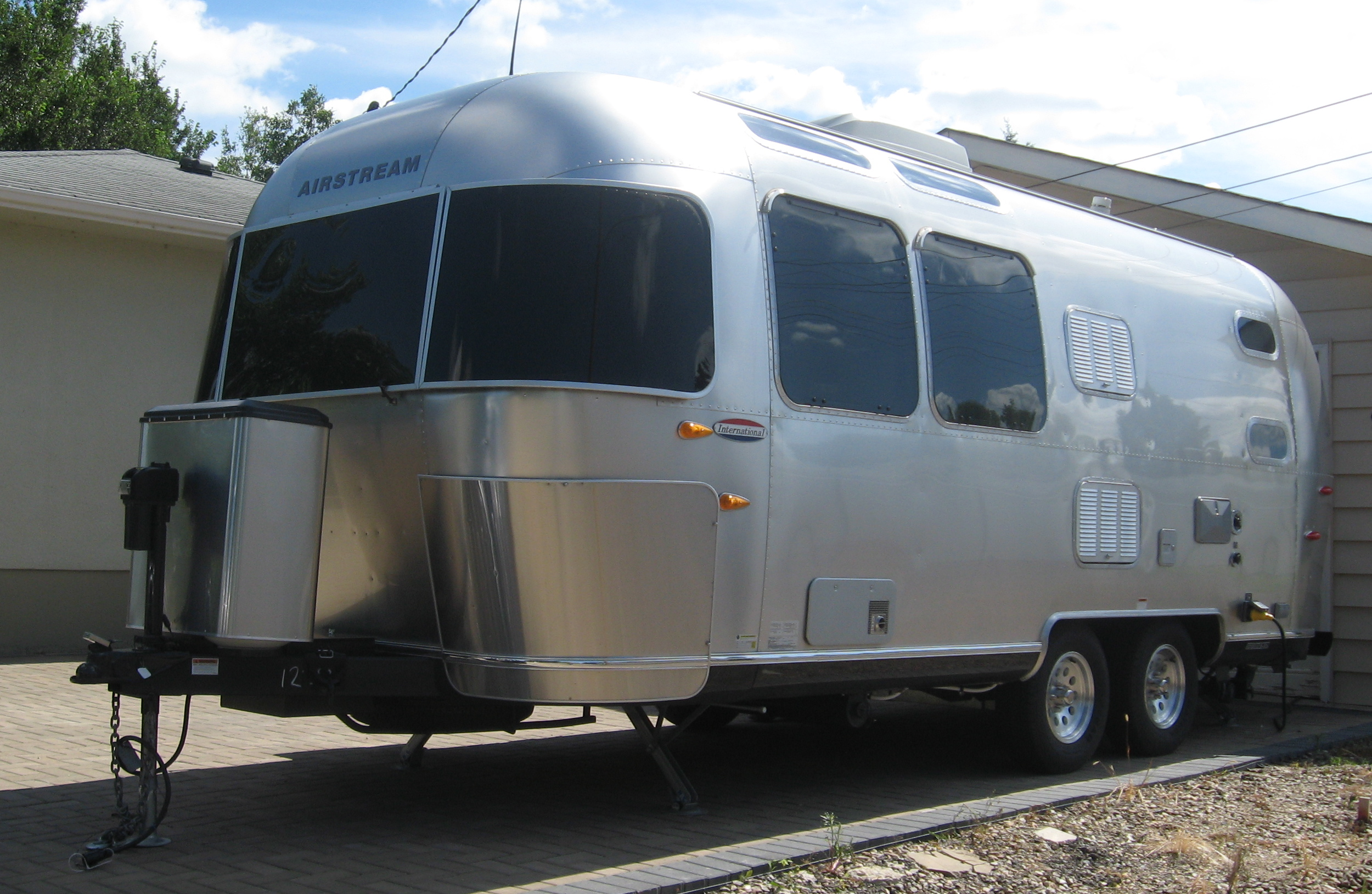 Airstream trailer in Saskatoon, SK, summer 2008